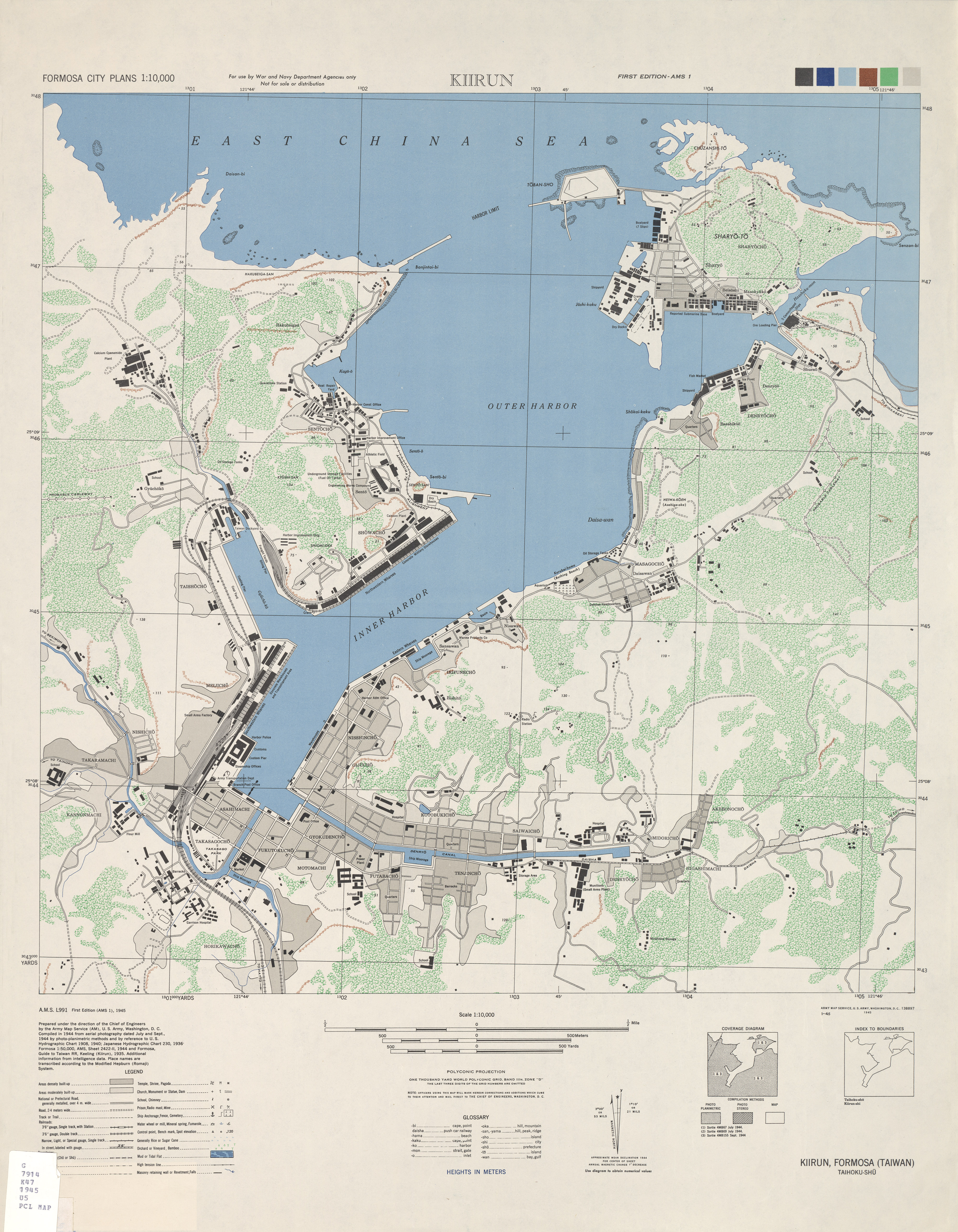 Kiirun 1:10,000 1945